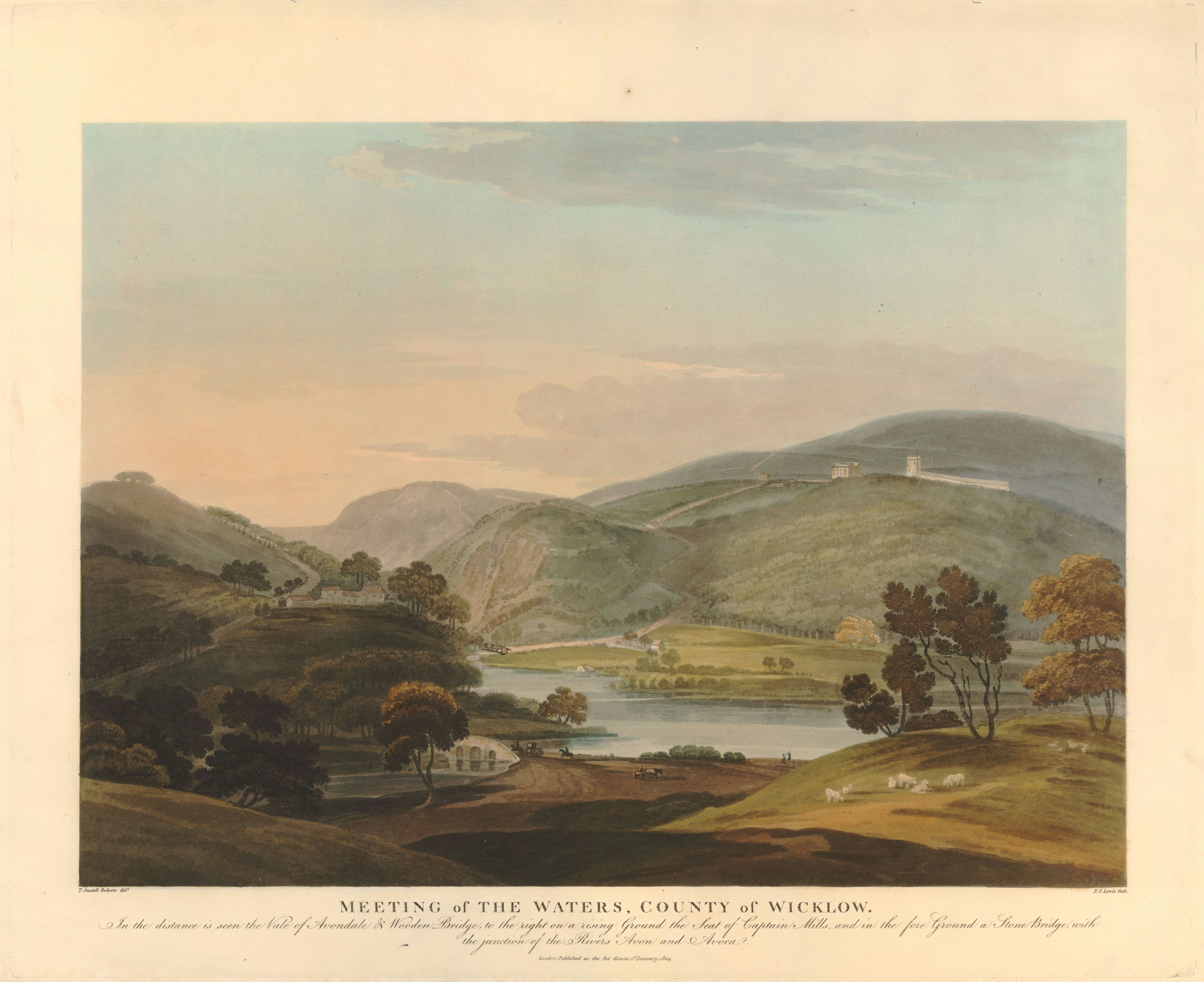 Engraving of the confluence of the River Avonbeg and River Avonmore in County Wicklow, Ireland, to form the River Avoca. The dwelling to the left belonged to Abraham Mills.